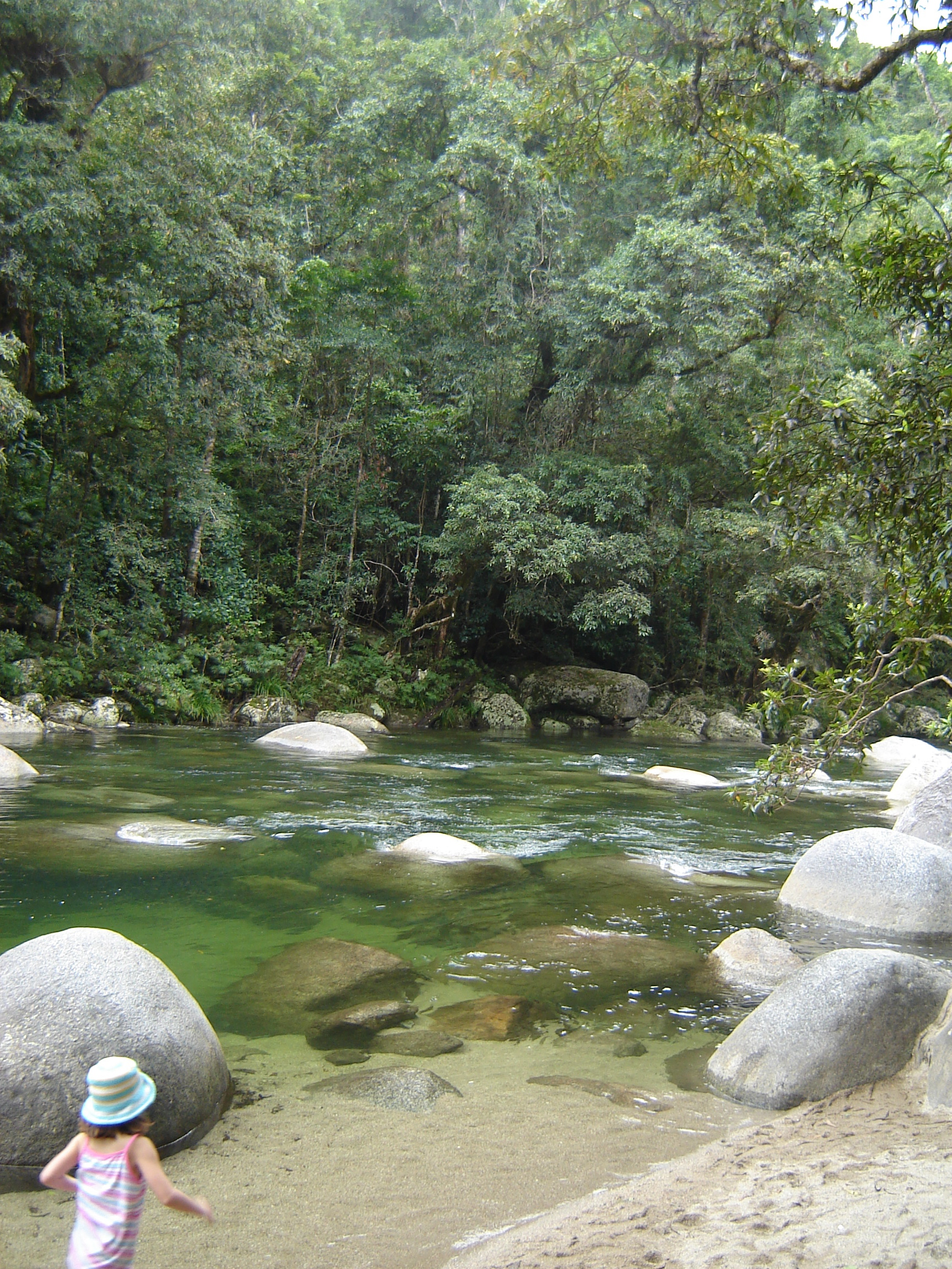 Mossman Gorge, part of the Daintree National Park.